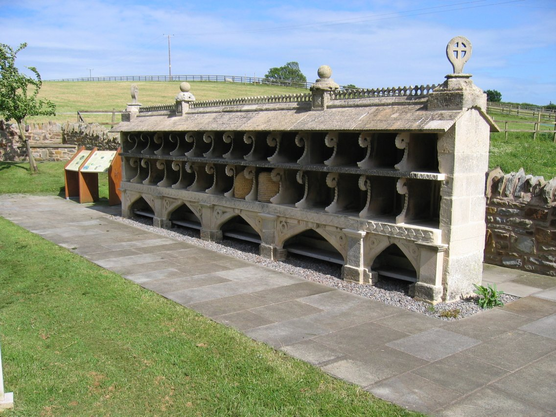 Hartpury bee shelter in the churchyard at Hartpury, Gloucs.